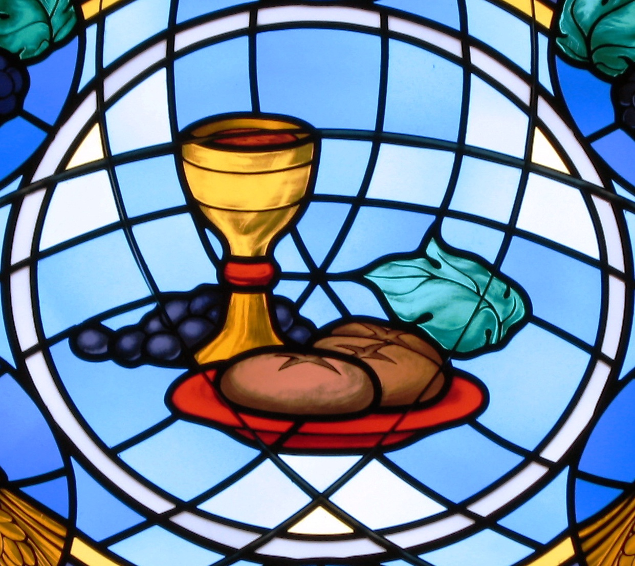 St. Michael the Archangel Parish, Findlay, Ohio Eucharistic stained glass window depicting bread and wine